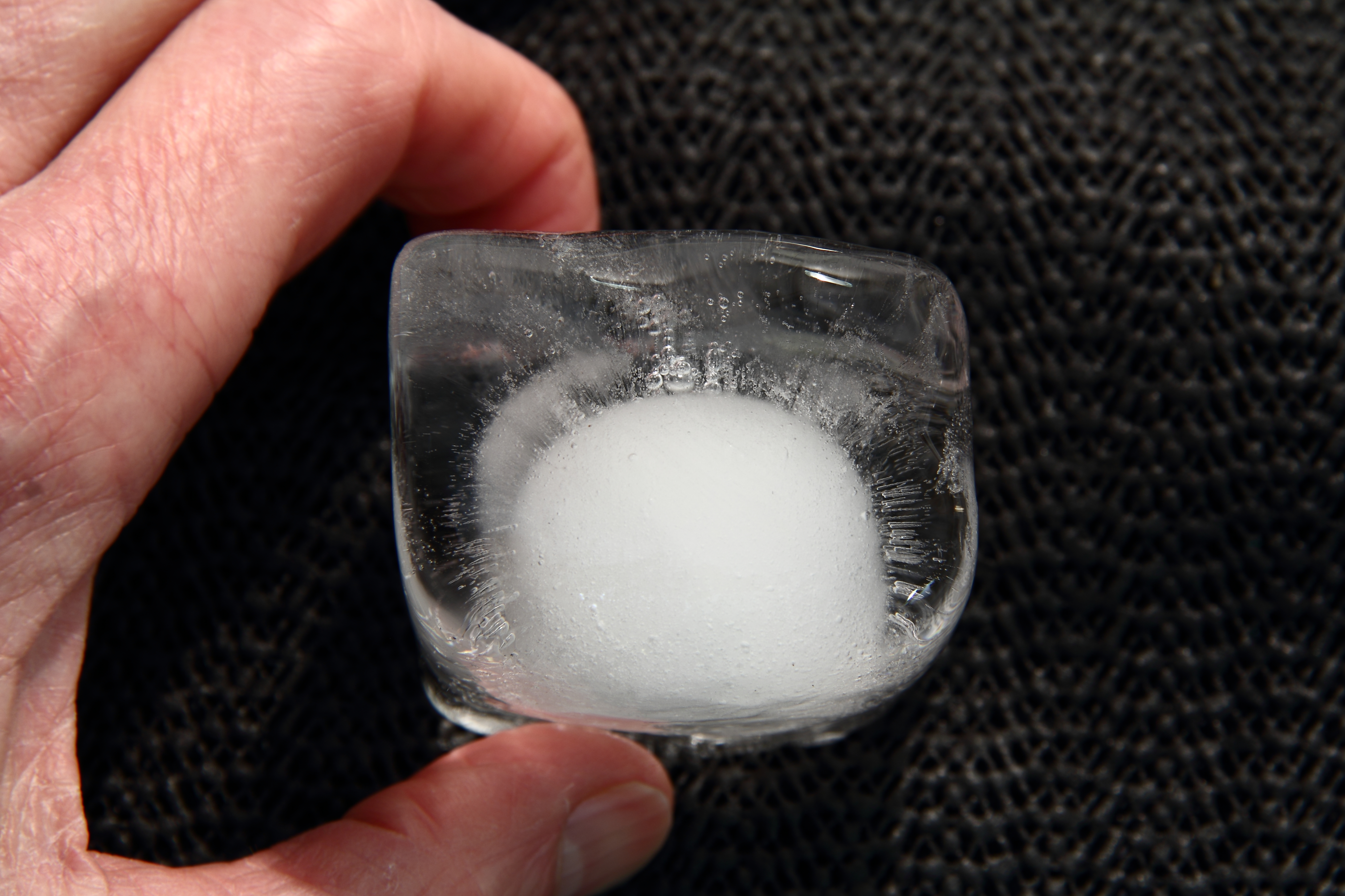 Ice cube grown from tap water in a standard household deep freeze. The top of the cube (the initial air-water interface) is up in this photograph. Growth proceeded from the top and both sides (the clear zones), systematically expelling the water's air content toward the centre and bottom of the cube. The white zone is where a lot of this air eventually became entrapped as tiny bubbles.